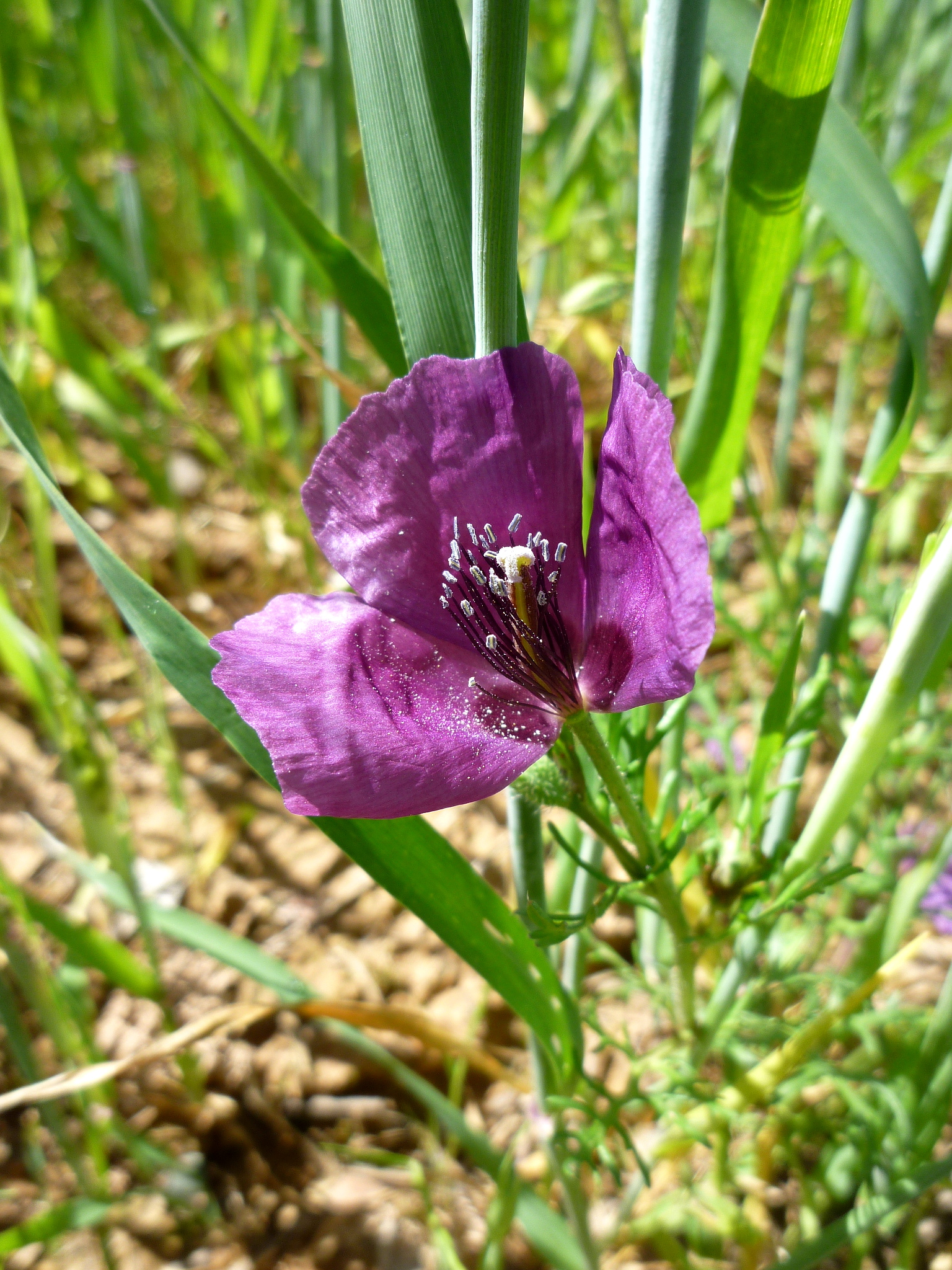 Roemeria hybrida. In Torà (Segarra- Catalunya). On 590 m. altitude